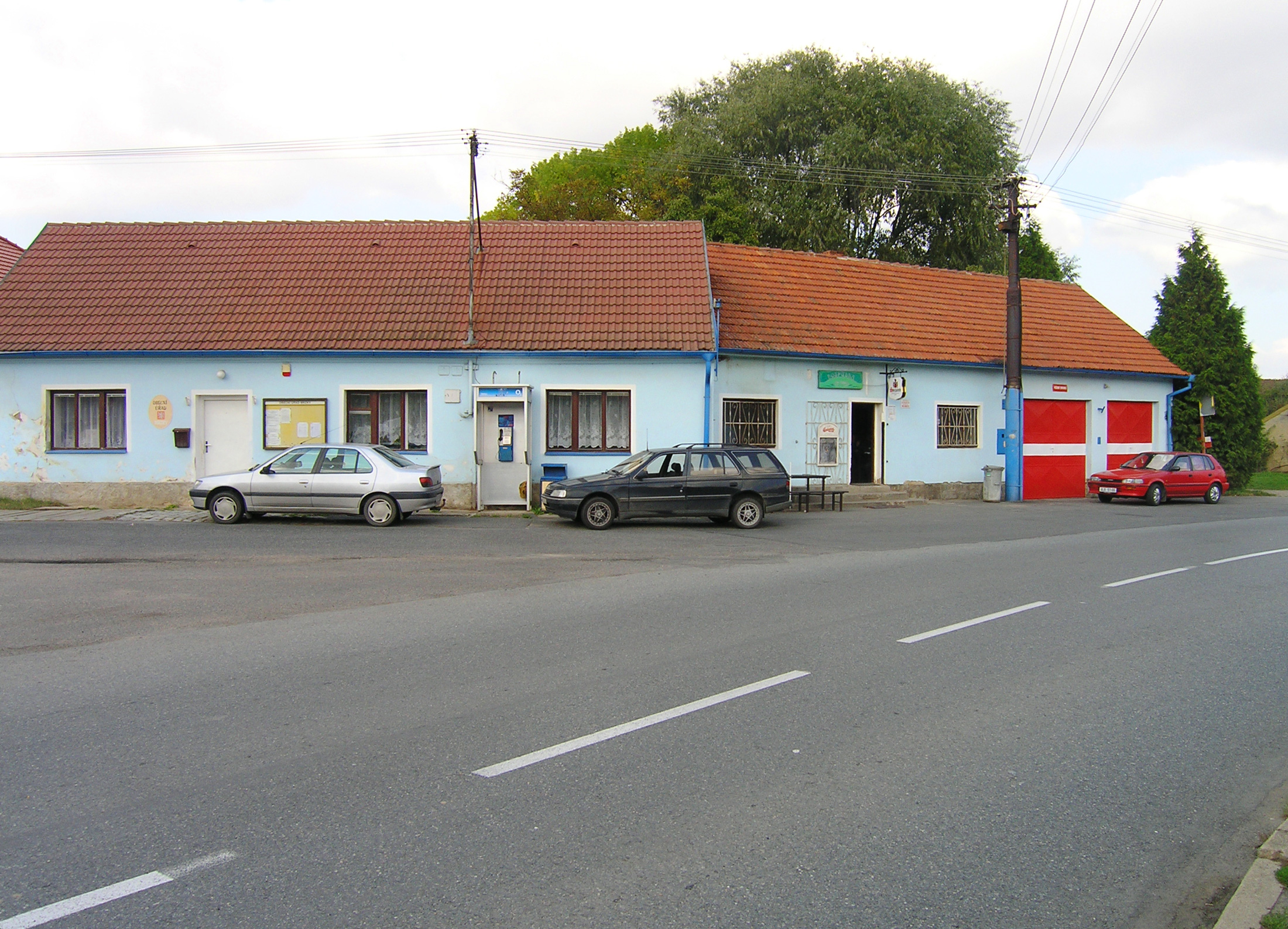 Municipally office and other buildings in Mrzky, Czech Republic